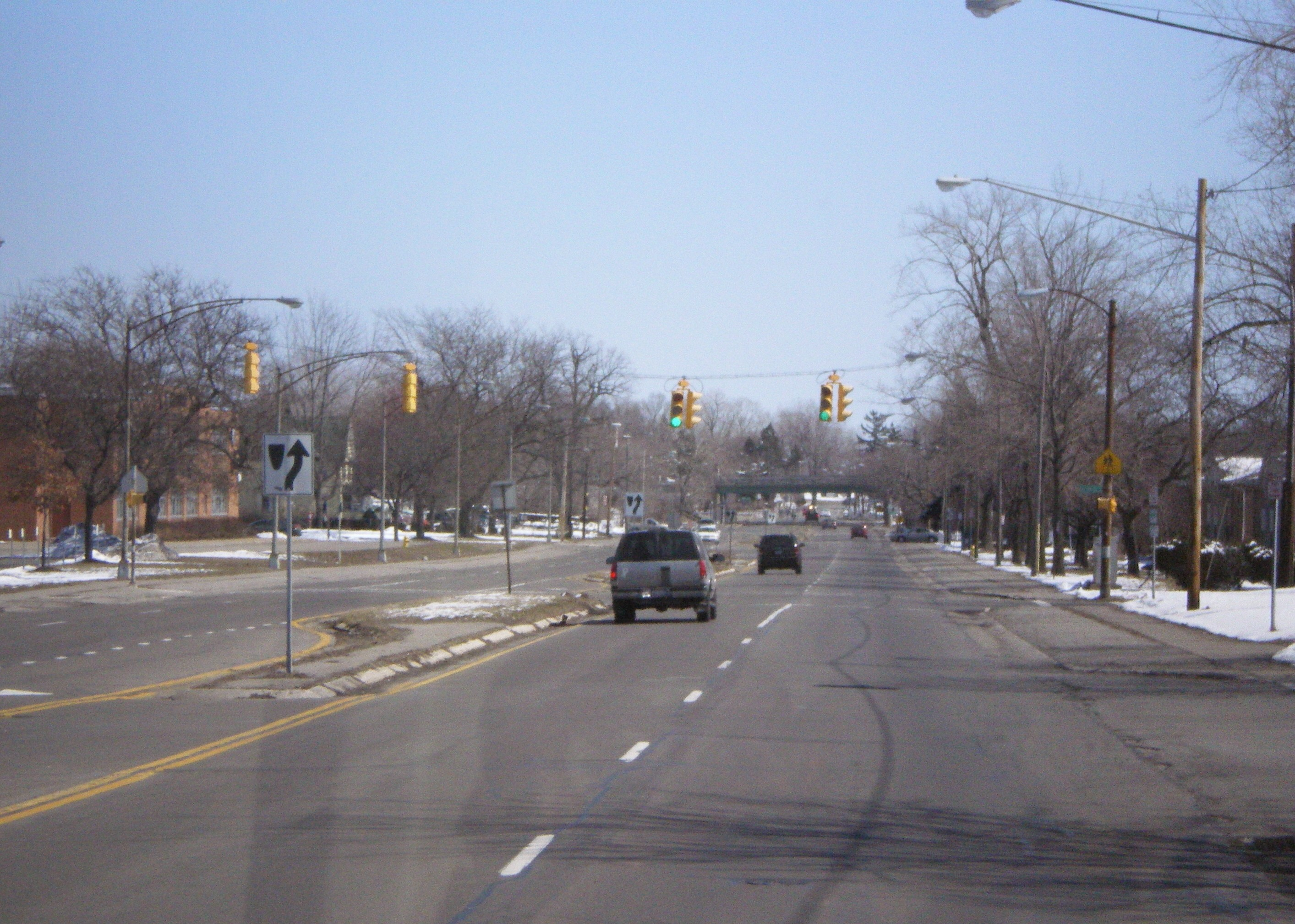 Eastbound on East Ridge Road in Irondequoit, New York. This part of Ridge was part of US 104 and NY 18 during the 1960s. NY 590 is in the background.